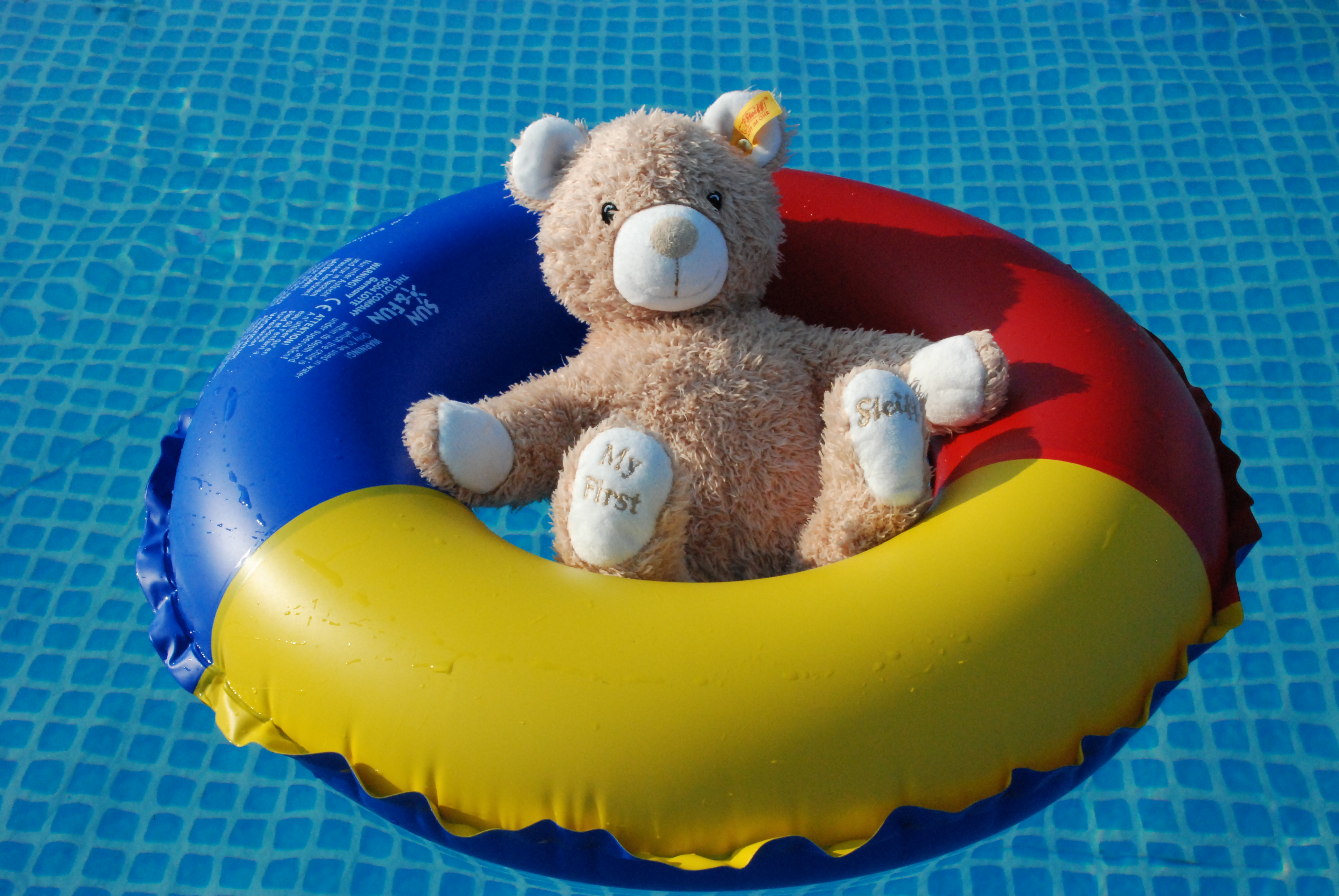 teddy bear in swim ring